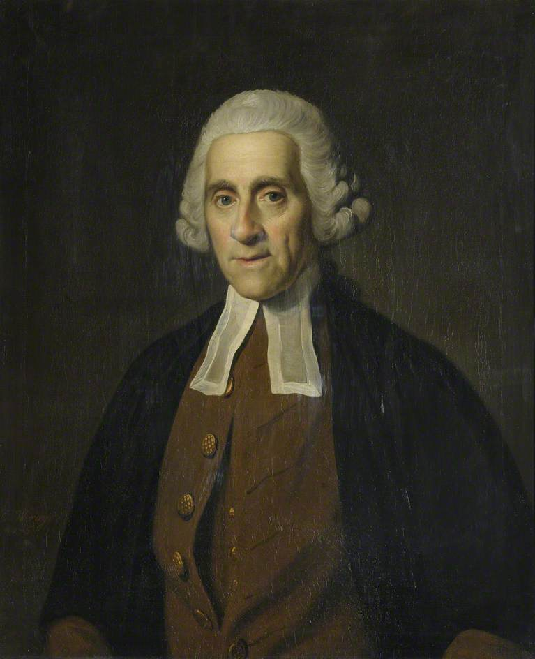 Portrait of Daniel Wray (1701–1783), English antiquarian.